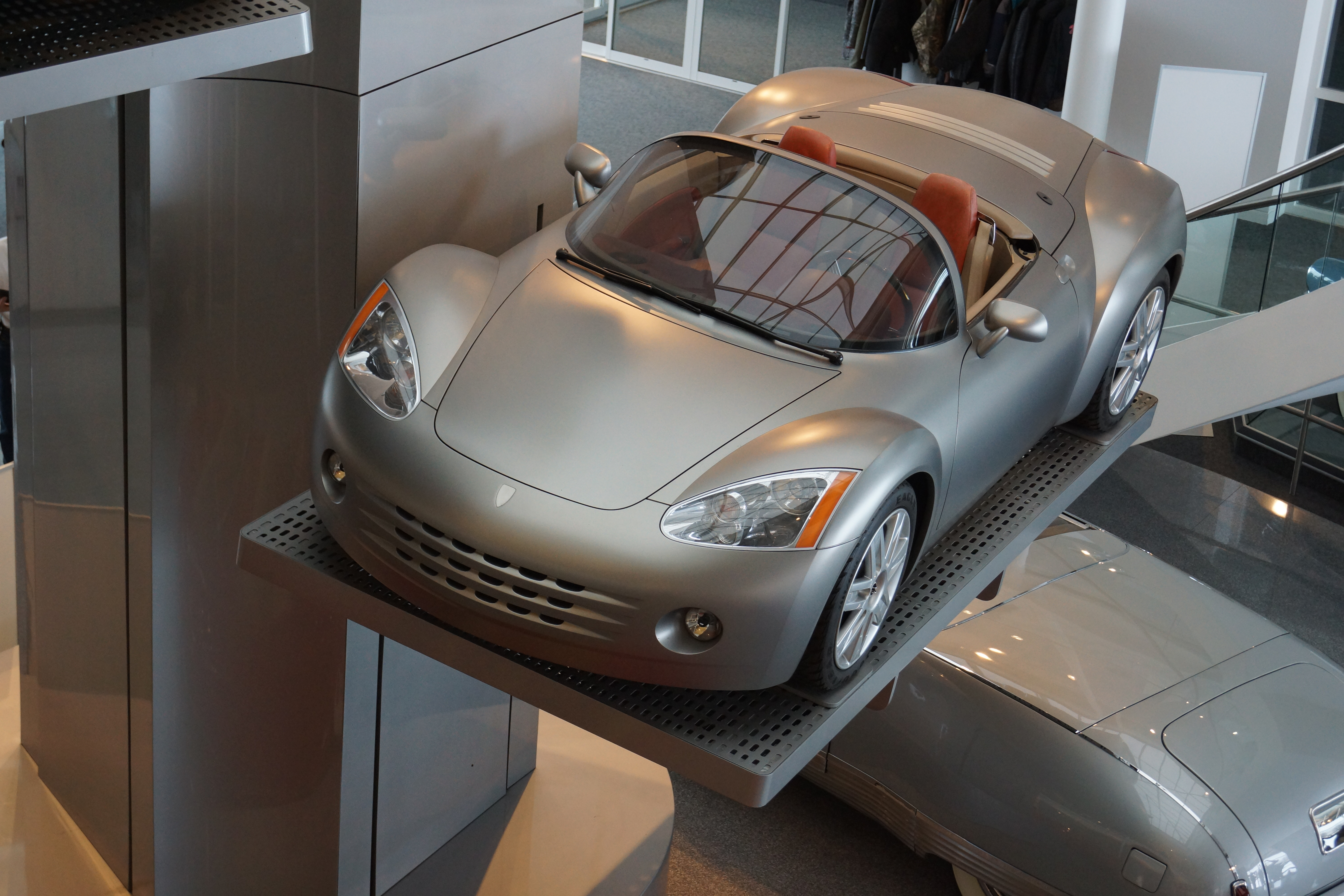 Click here for more car pictures at my Flickr site. Or here for my Car Crazy Tumblr site. Back on November 4th, Hemming's Blog posted an article about the closing of the Walter P. Chrysler Museum . I had missed a couple other opportunities with the WPC Club and others to get into the museum, after it had closed to the public. I did not want to regret missing this last chance to see all of the vehicles before being spread out to other facilities. I trekked from Western Minnesota to Eastern Michigan during Winter Storm Decima. I missed the worst parts of the storm, but still had to endure the aftermath winds, sub zero temperatures and a lake effect snow storm. The trip was difficult, but well worth it. I got to see several Chrysler Corporation concept and show cars that I had only seen pictures of before. There were several clever interactive displays demonstrating various innovations over the years. Since it was the last chance, I duplicated several shots using different camera settings to see what produced better results. I wish I had invested in a strobe light diffuser for all of those indoor pictures. I have not had much experience or success in the past with indoor car images.